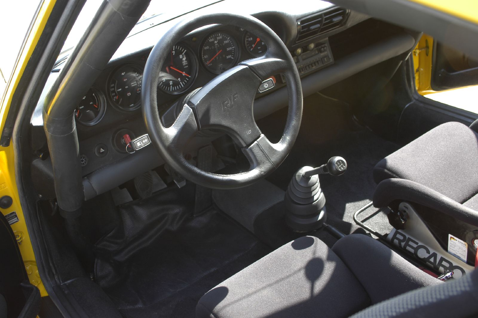 Ruf CTR Yellowbird interior